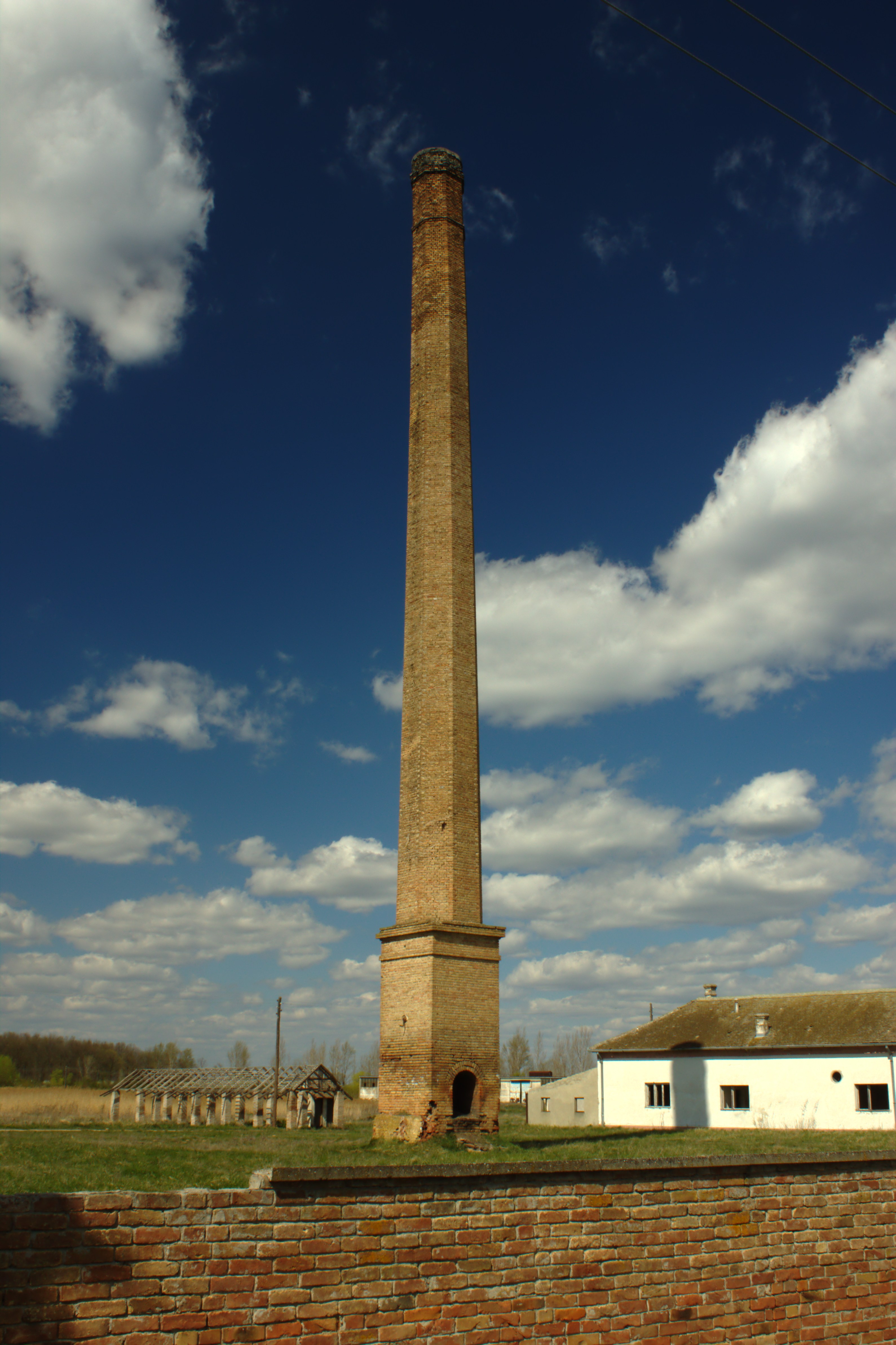 A chimney in the town of Velika Greda, one of the few remaining objects of some very old industrial area, eastern Vojvodina, Serbia